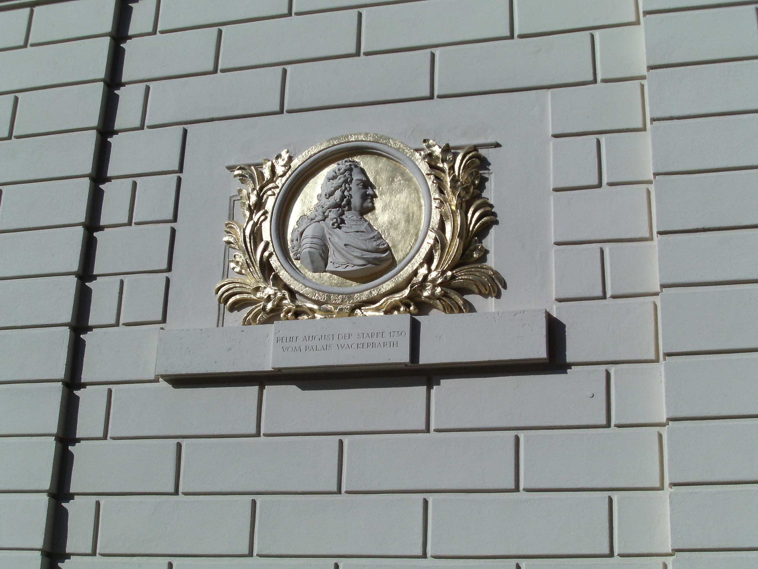 Relief of August II the Strong by Johann Benjamin Thomae at the Johanneum in Dresden, formerly at Wackerbarth's Palace